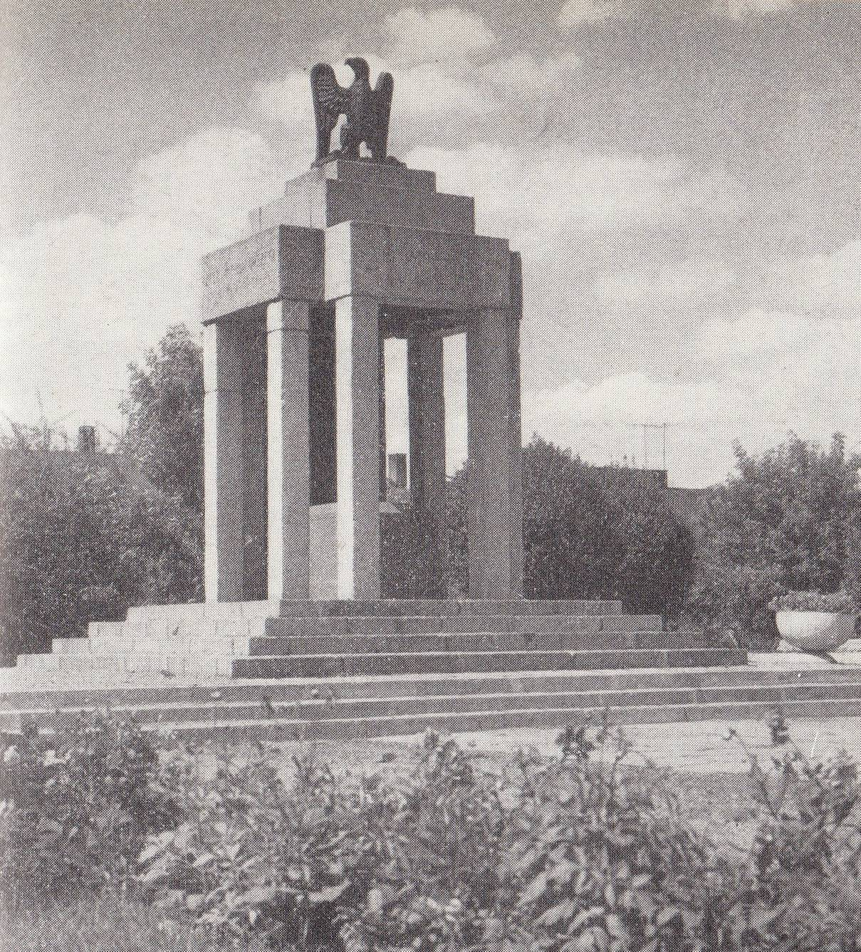 Mausoleum of Dionizy Czachowski in Radom